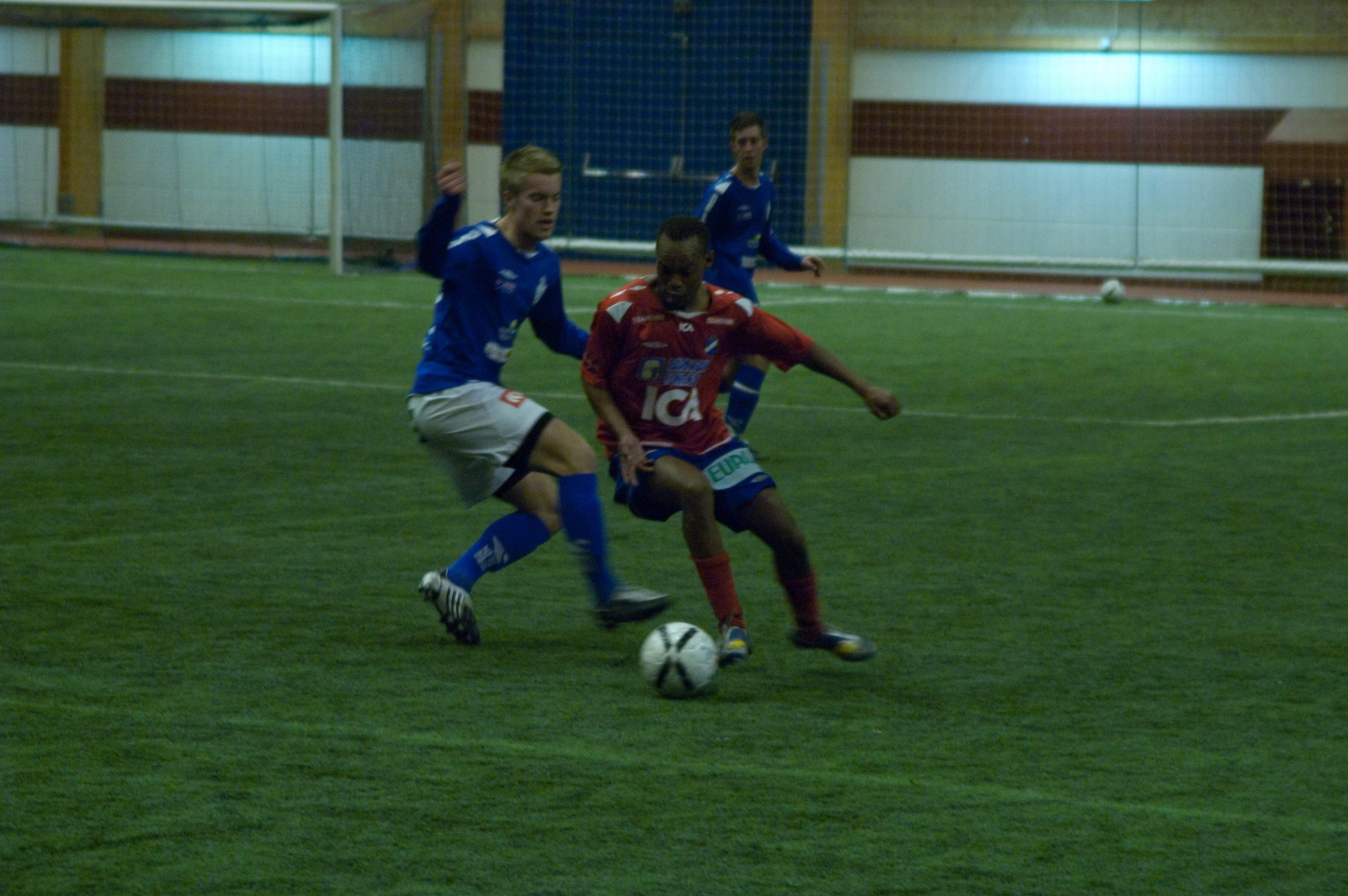 (South African midfielder Jabu Mahlangu playing a test game for Östers IF against Ljungby, February 2010)